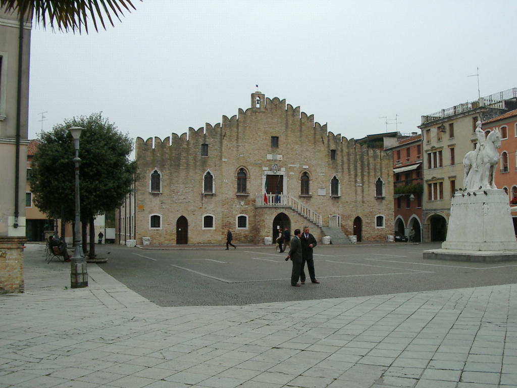 author: Marco Dal Moro, source: PENTAX Optio 230, if somebody wanna use this picture I'd appreciate if they cite me.